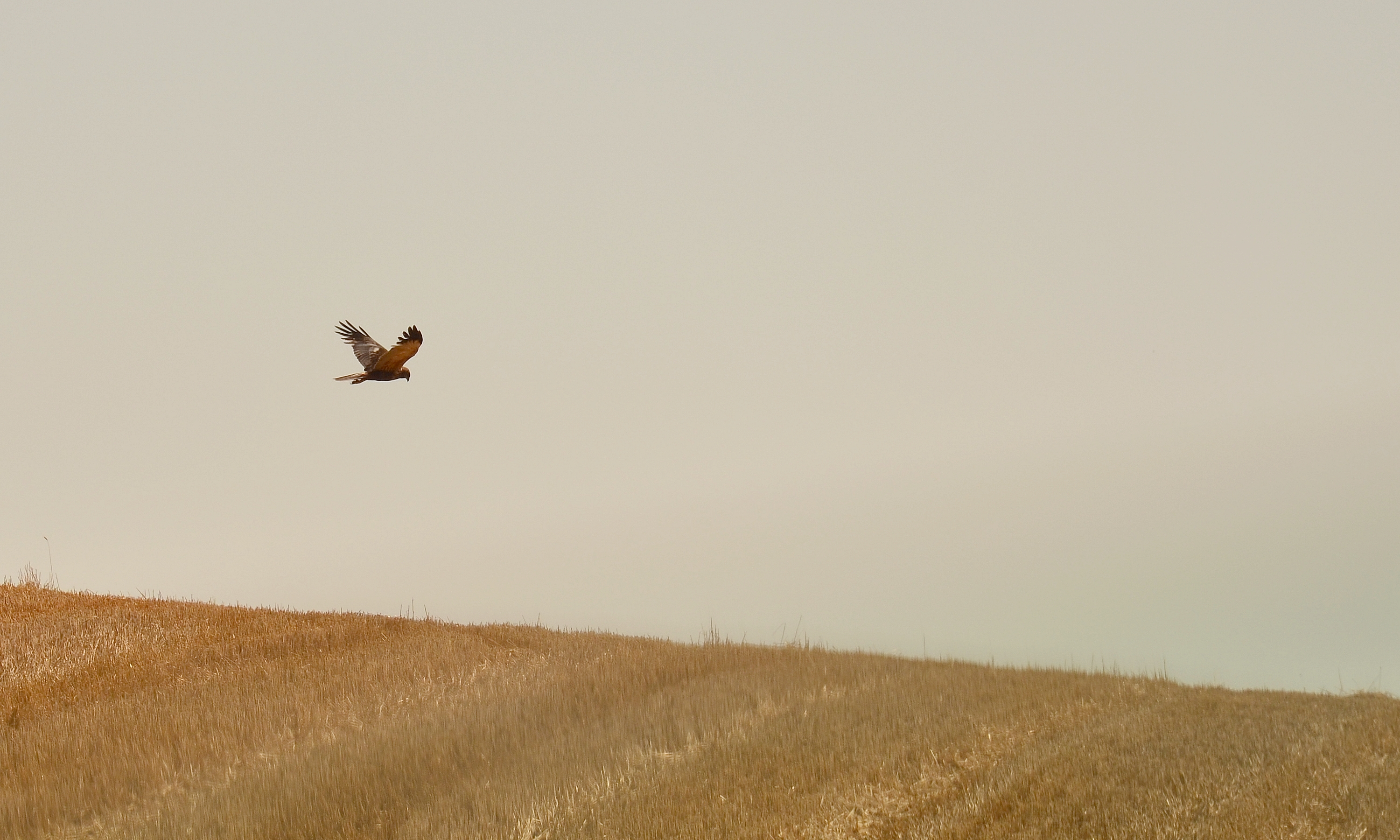 Western marsh harrier male hunting